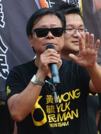 Wong Yuk Man